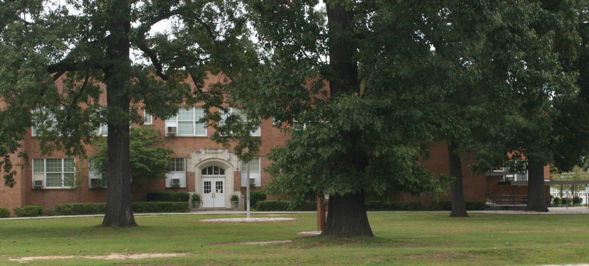 Seventy-First Consolidated School The Historical portion now houses the middle school. The high school moved into new buildings across 71st School Road with renovations and expansions continuing after more than ten years.